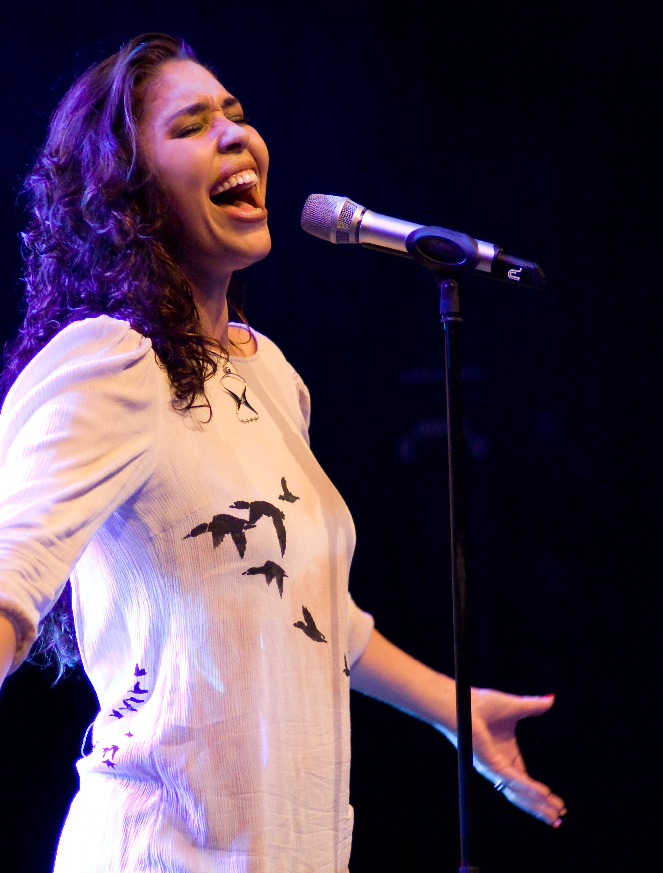 Hind Laroussi